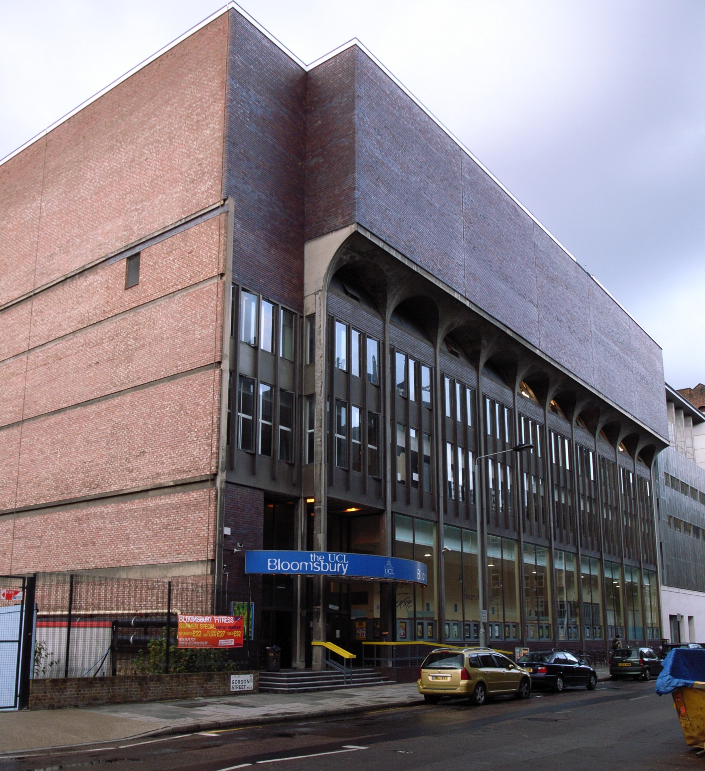 Bloomsbury Theatre (1964-9) by Fello Atkinson of James Cubitt & Partners. Photos taken on a Twentieth Century Society walk around Bloomsbury and Somers Town on 7th July 2008.